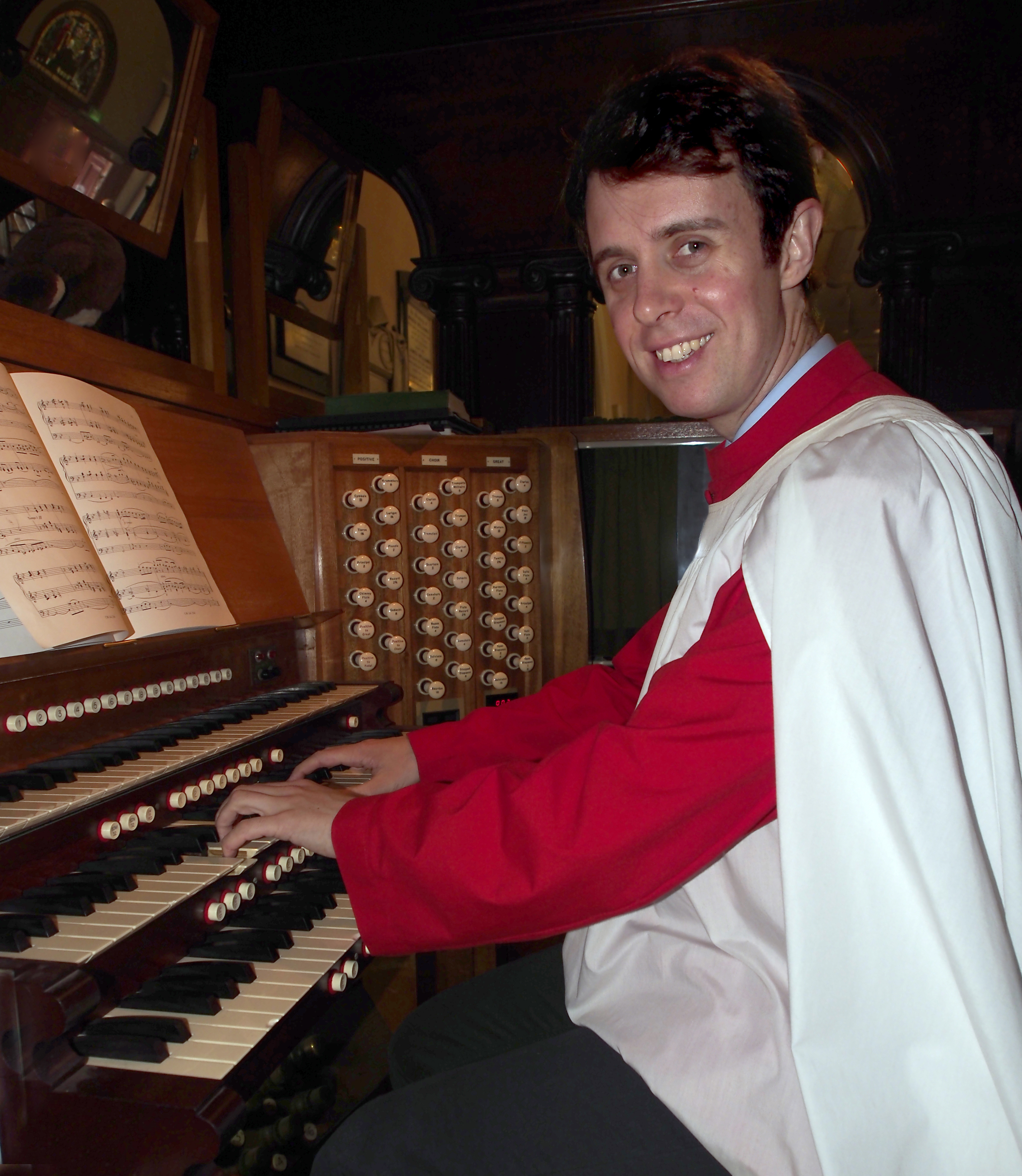 Alistair Nelson at the organ of St James' Church, Sydney (2014)